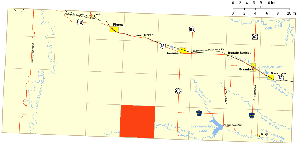 Map of Bowman County, ND, with Grand River Township highlighted